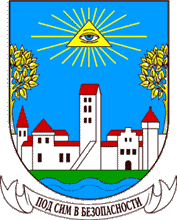 Coat of arms of Neman (Kaliningrad oblast)